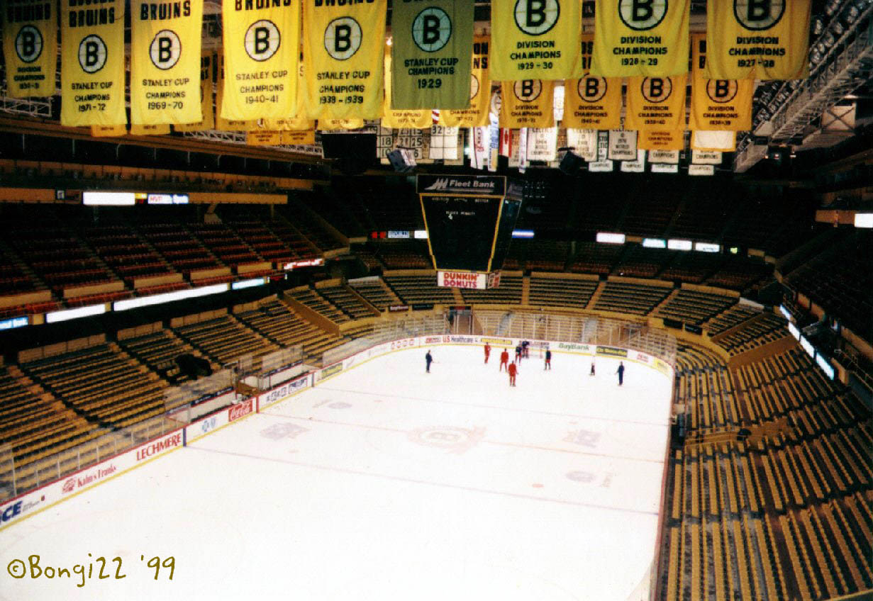 Boston Garden set up for NHL hockey during a New York Rangers practice around 1995. Home of the Boston Bruins and Celtics. Also shown are Stanley Cup Banners.